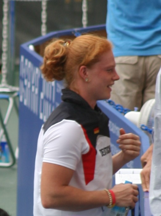 World Athletics Championships 2007 in Osaka - German hammer thrower Betty Heidler interviewed after the qualification